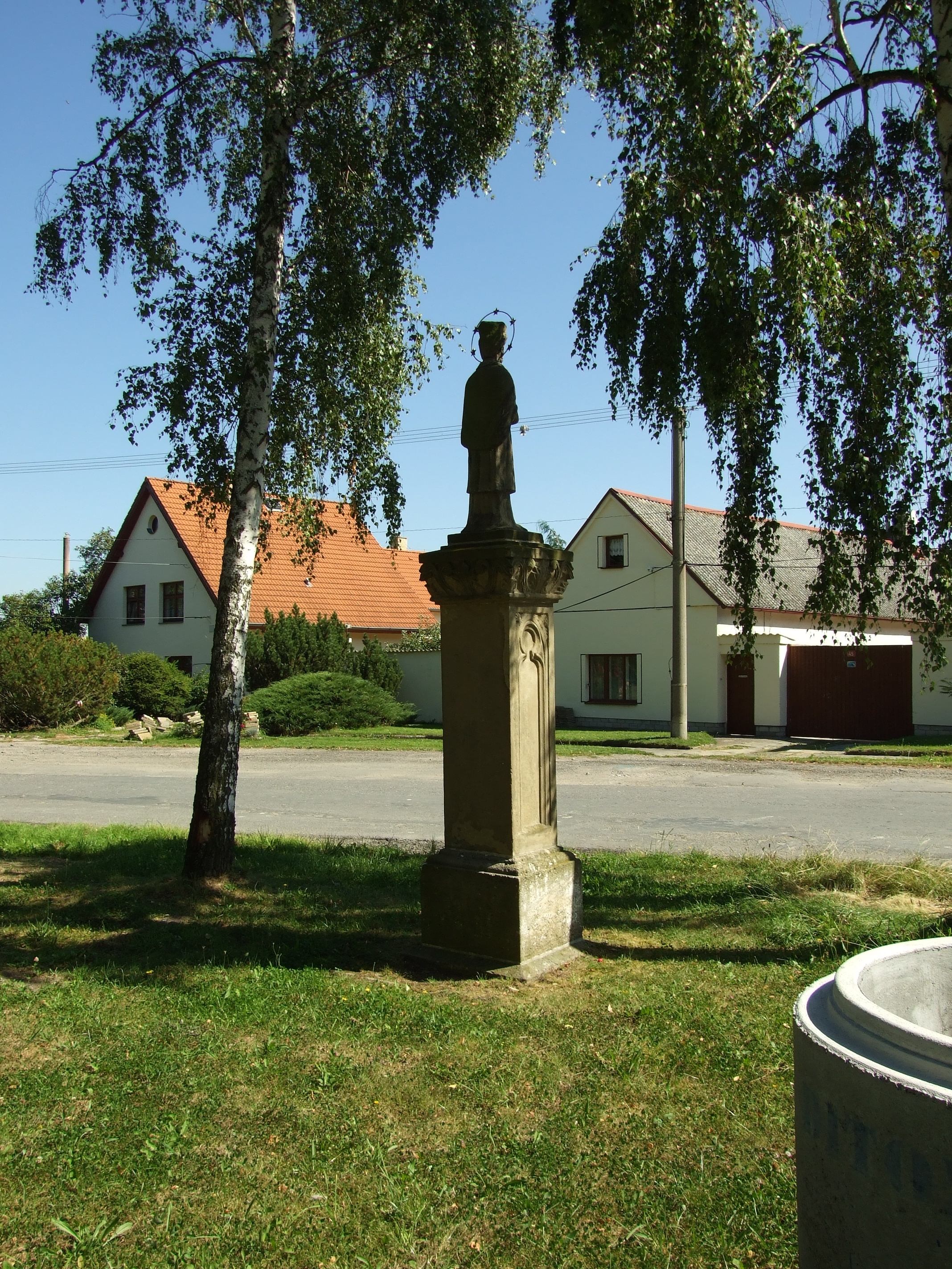 Mšecké Žehrovice village in Rakovník district, Central Bohemian region, CZ This photograph was taken within the scope of the 'Czech Municipalities Photographs' grant.